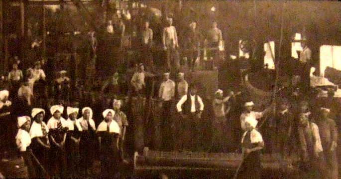 Tanaka_iron_works,_Kamaishi_mine